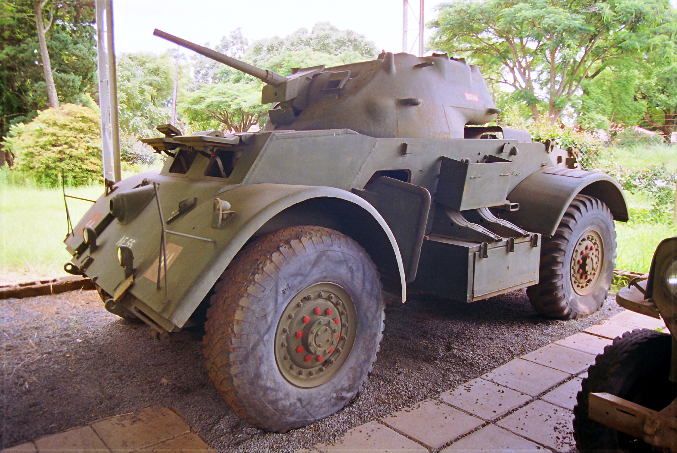 T17E1 Staghound